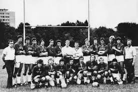 The youth Soviet rugby union team at 1978 FIRA Youth European Championship